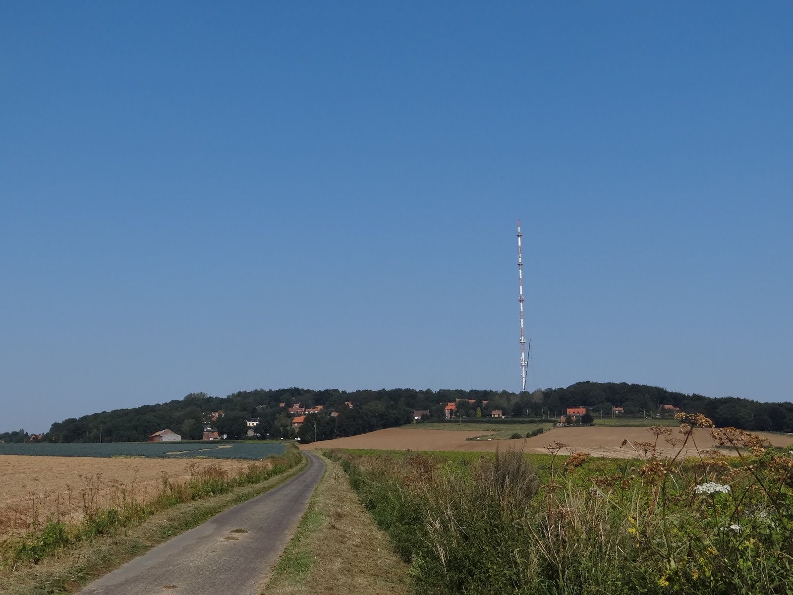 French flanders landscapes